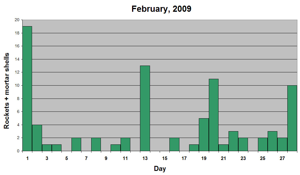 Statistic of rockets and mortar shells fired from Gaza into Israel along February 2009. Data from wikipedia page